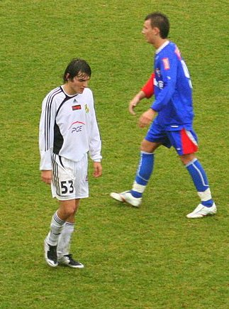 Mateusz Cetnarski